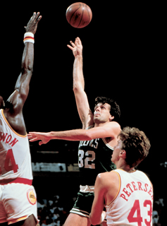 Kevin McHale with Hakeem Olajuwon and Jim Petersen - 1986 NBA Finals - Houston